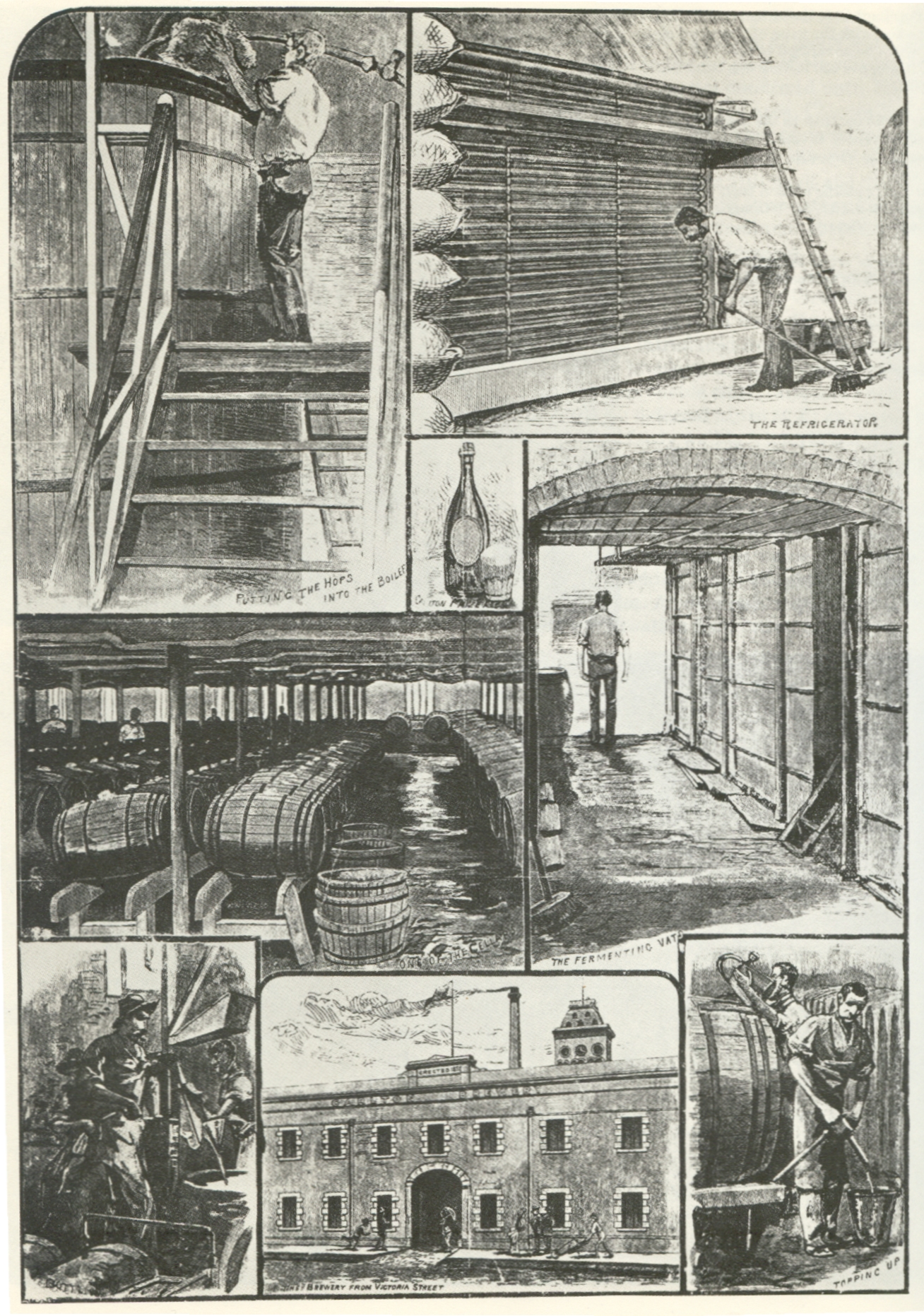 Carlton Brewery